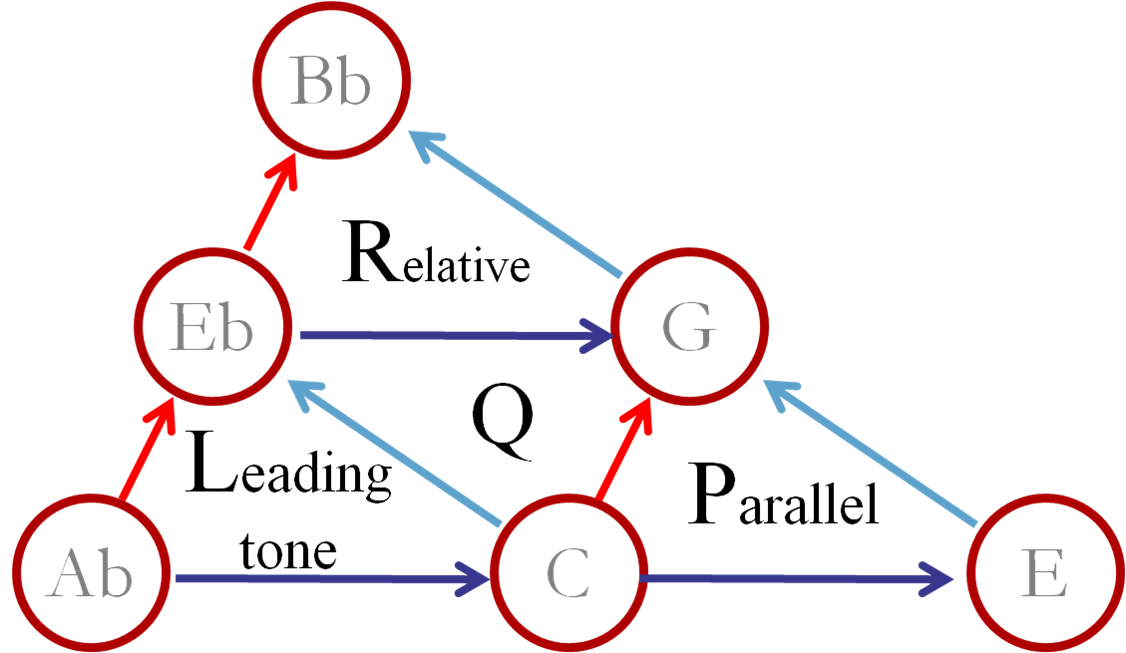 Neo-riemannian inter-chord operations on a tonnetz